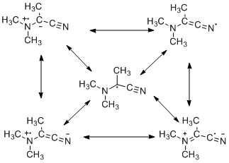 The resonance contributors of this free radical cause it be very stable via the captodative effect